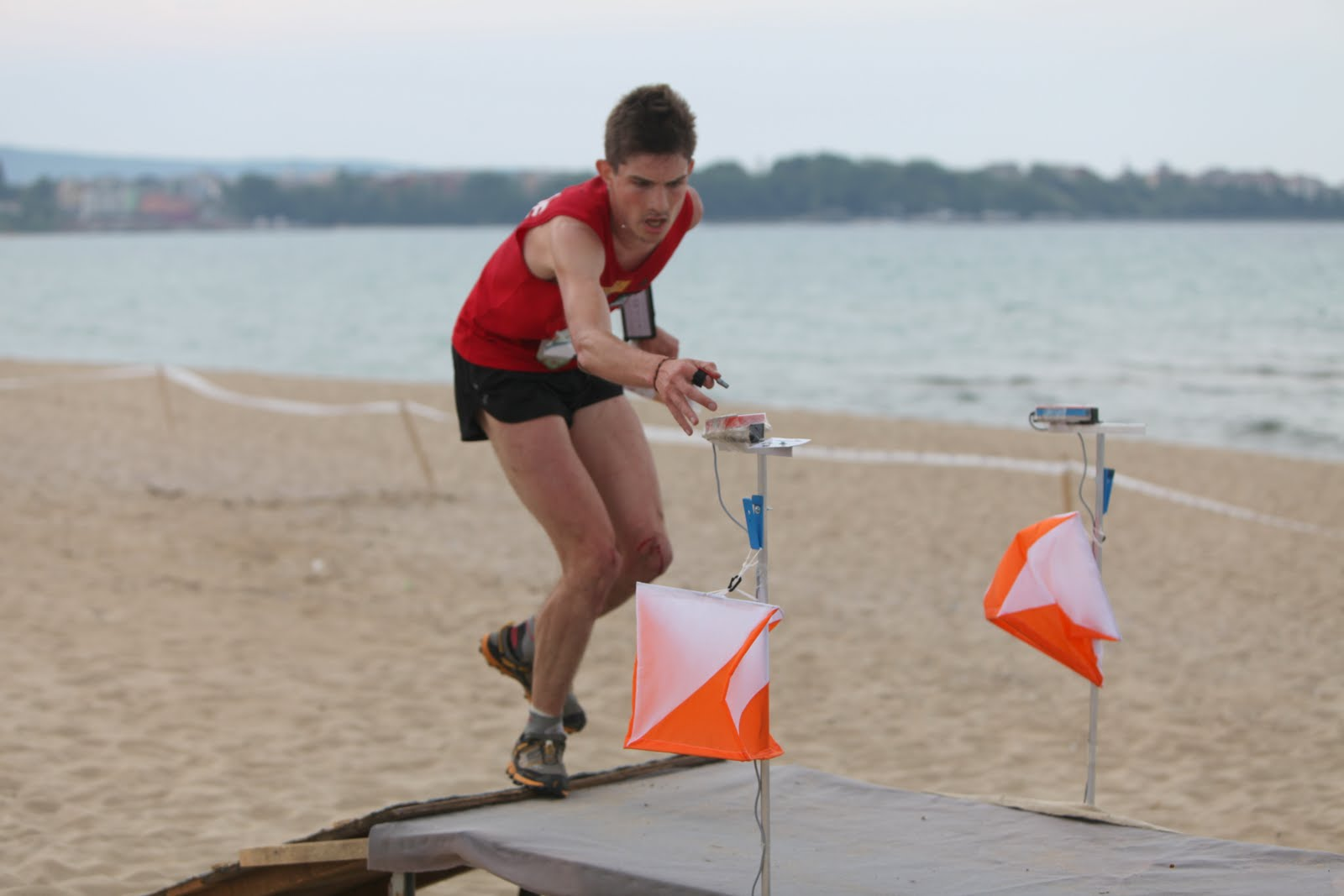 Fabian Hertner at European Orienteering Championships in Primorsko, Bulgaria